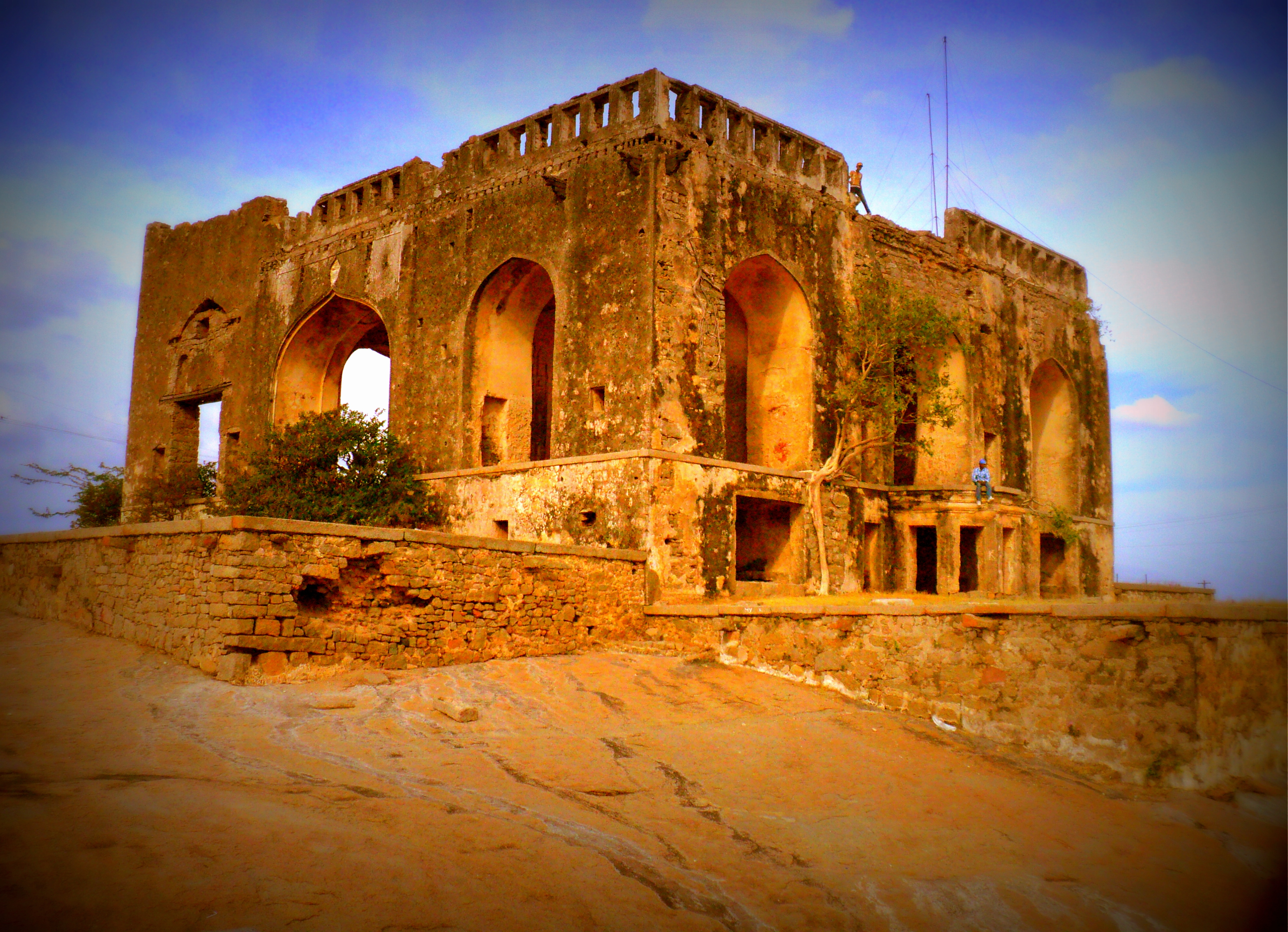 One of the primitive buildings in Bhongir Fort